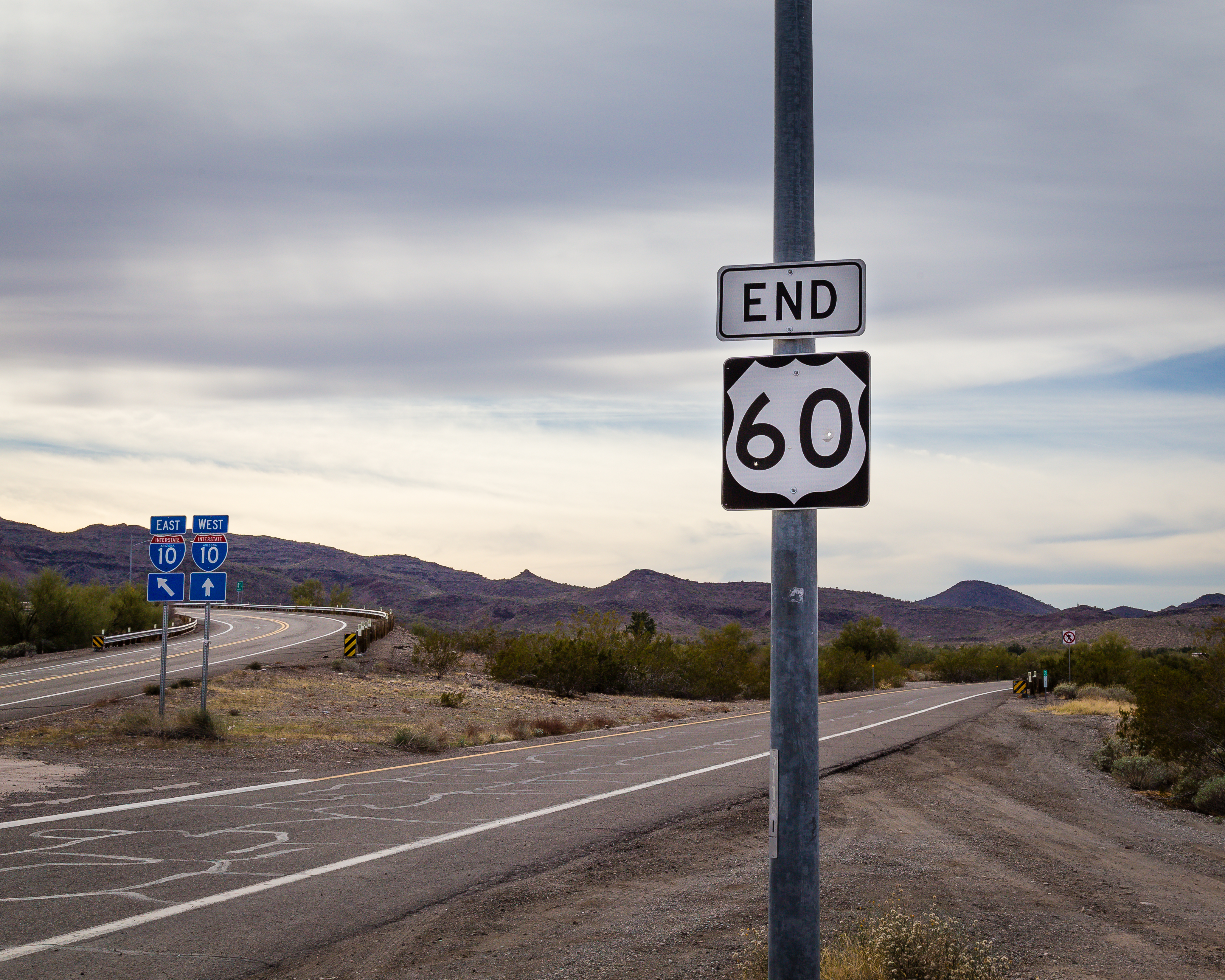 Thank you Arizona for marking the end/beginning.